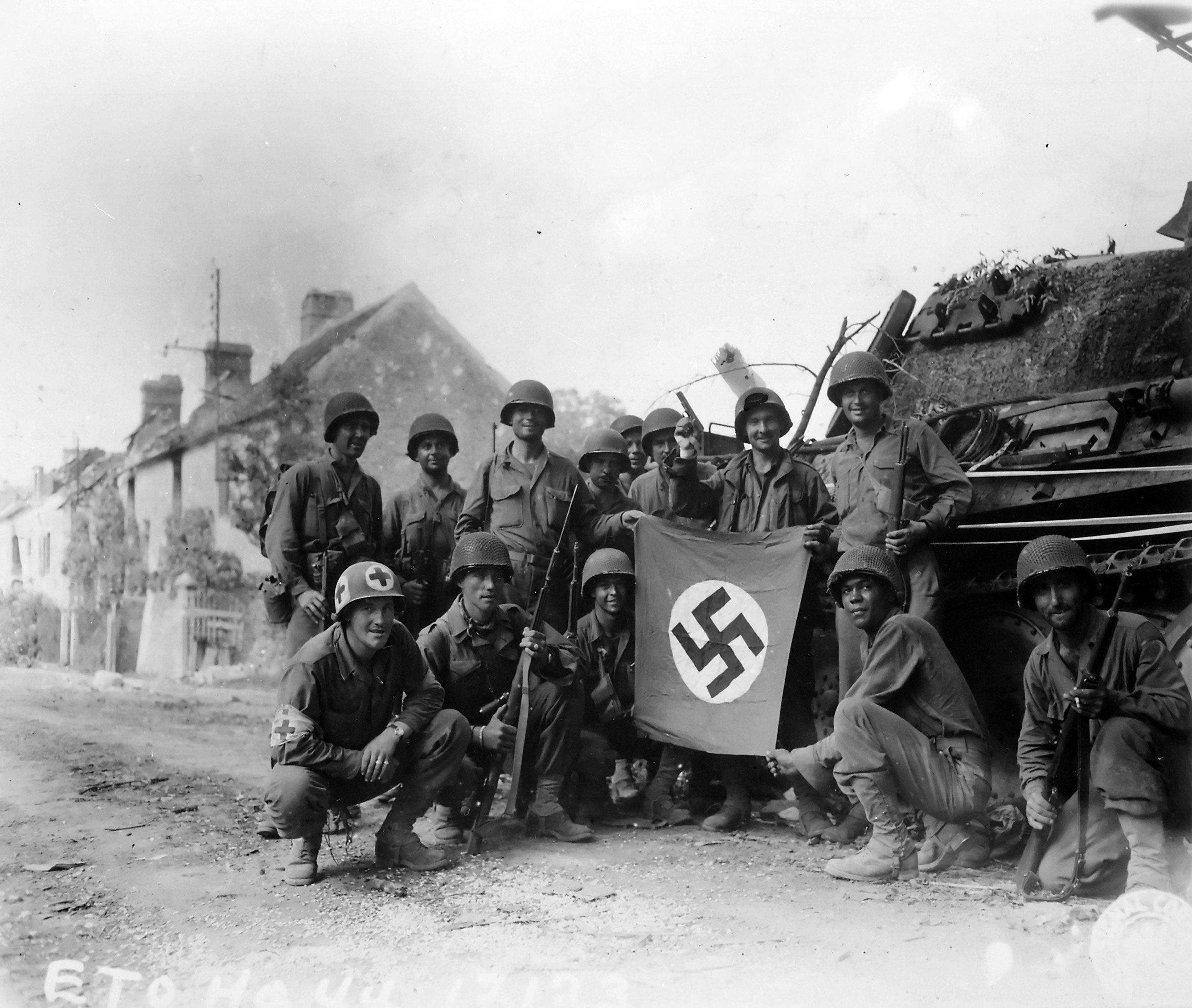 US soldiers celebrate with a captured German flag in front of a destroyed Panther tank. The group of infantrymen were left behind to "mop-up" in Chambois, France, last stronghold of the Germans in the Falaise Gap area